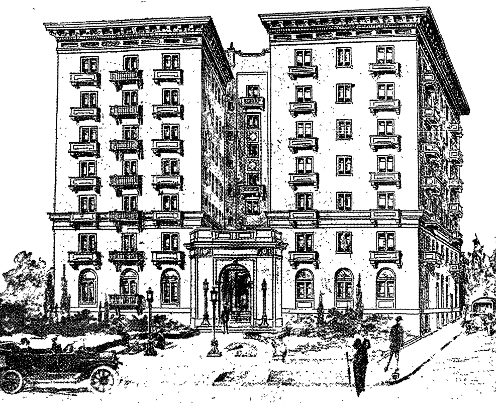 Sketch of proposed apartment building at West Sixth and Lake Streets, Westlake, 1915, showing automobiles and fashions of that time.